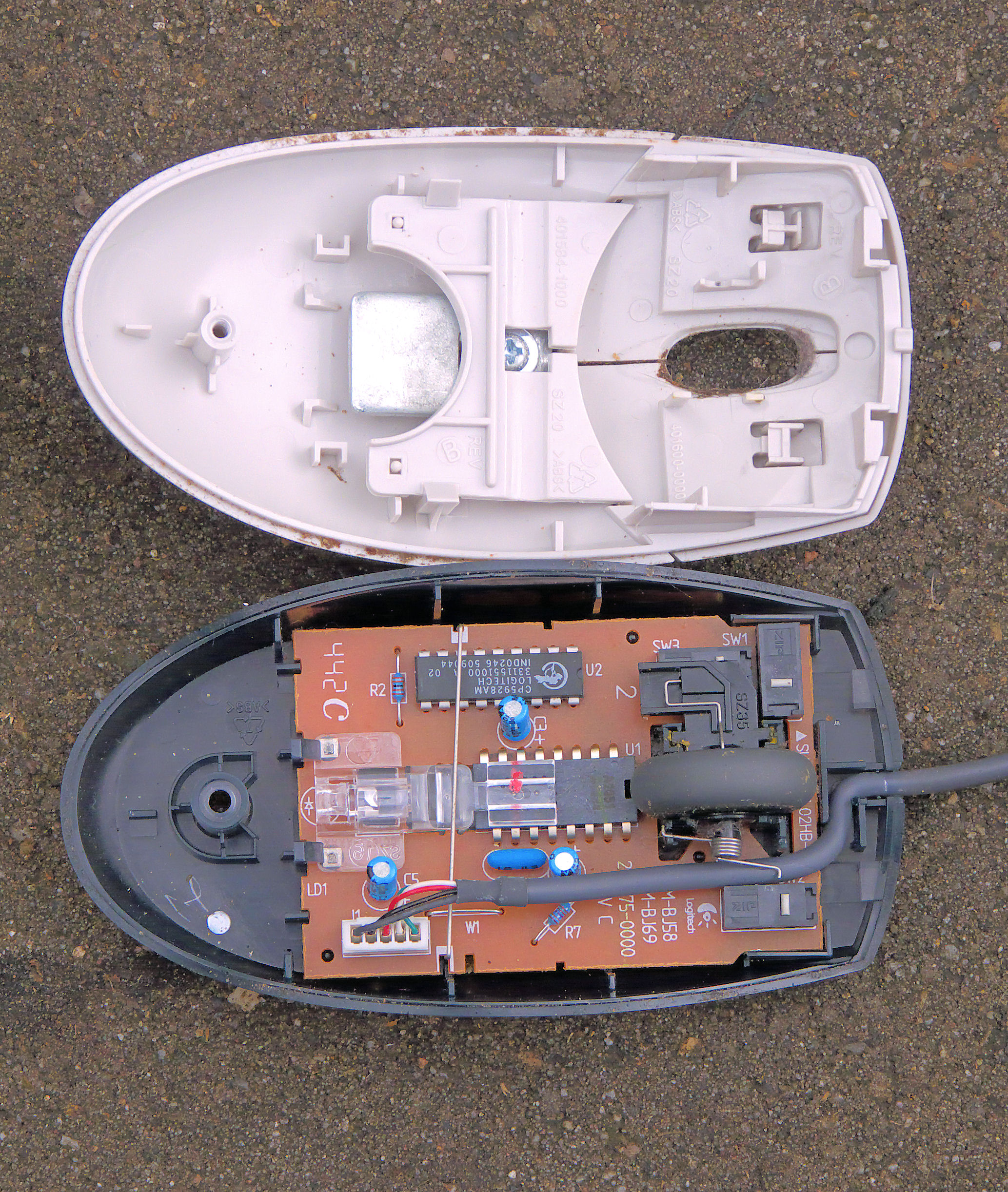 Optical Logitech mouse